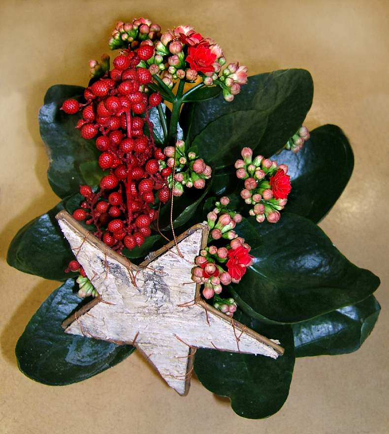 Flaming Katy (Kalanchoe blossfeldiana) with advent decoration Photo taken with friendly permission at "Blumenpavillon am Viadukt" in Weinstadt, Germany.